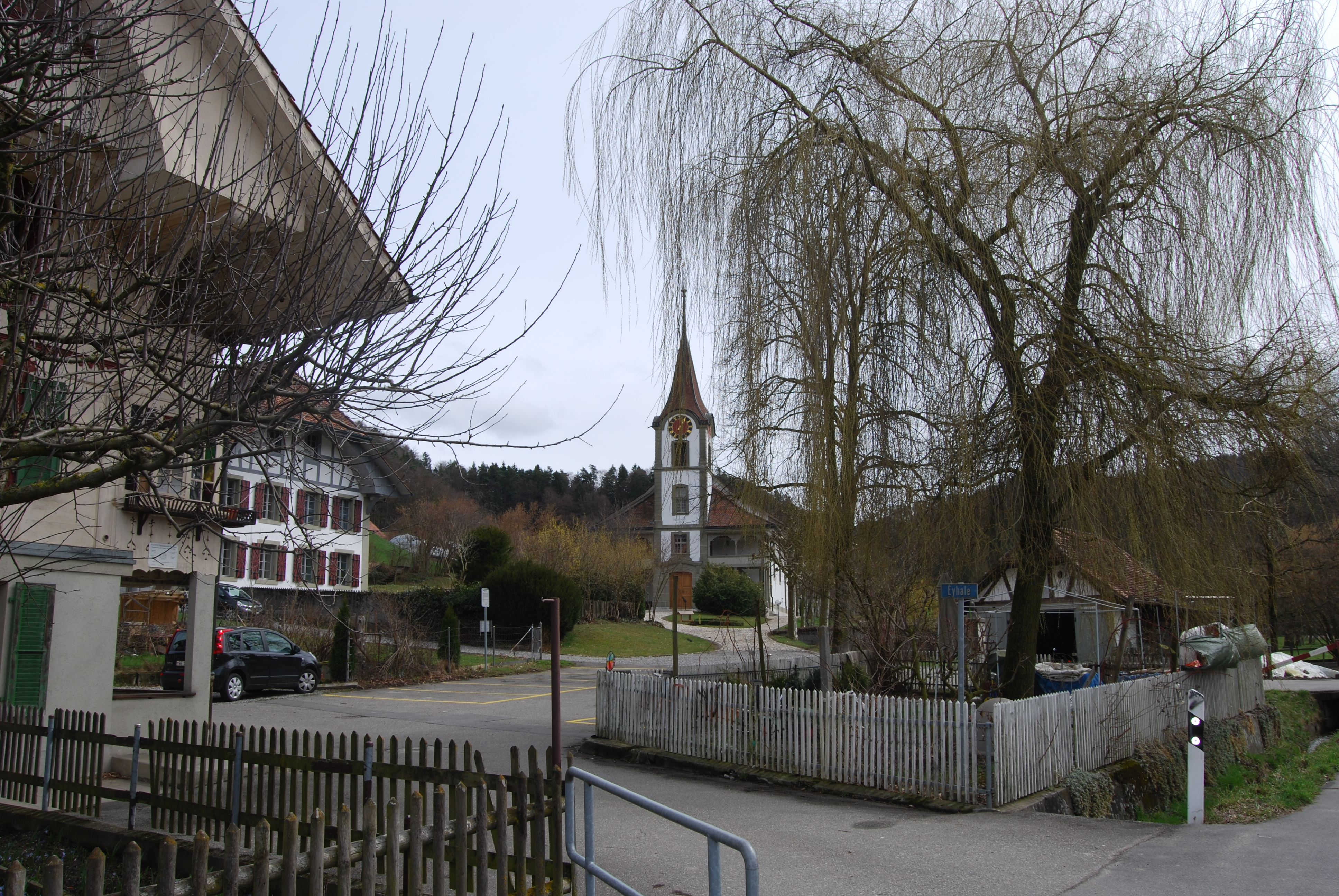 Church of Krauchthal, canton of Bern, SwitzerlandEsperanto: Preĝejo de Krauchthal, Kantono Berno, Svislando